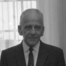 Speaker of the House of Commons of the United Kingdom Horace King, at a meeting with and Chancellor of Germany Ludwig Erhard in Bonn